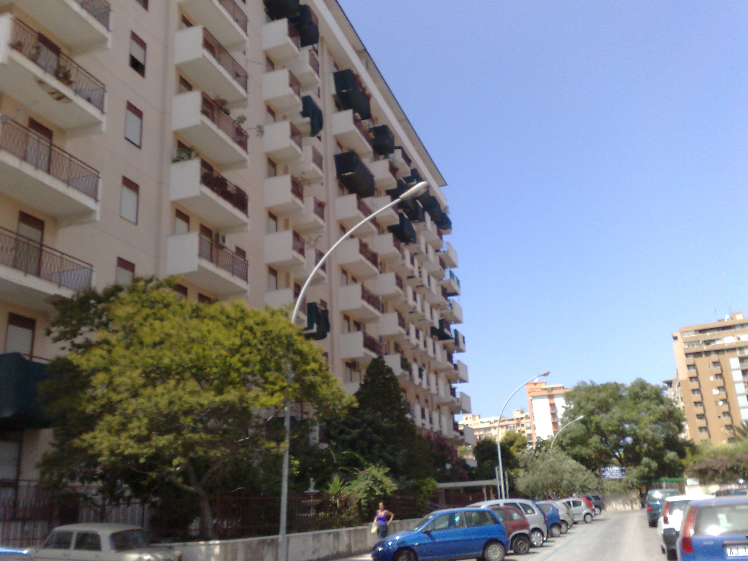 Via d'Amelio, in Palermo Via d'Amelio, luogo della morte di Paolo Borsellino